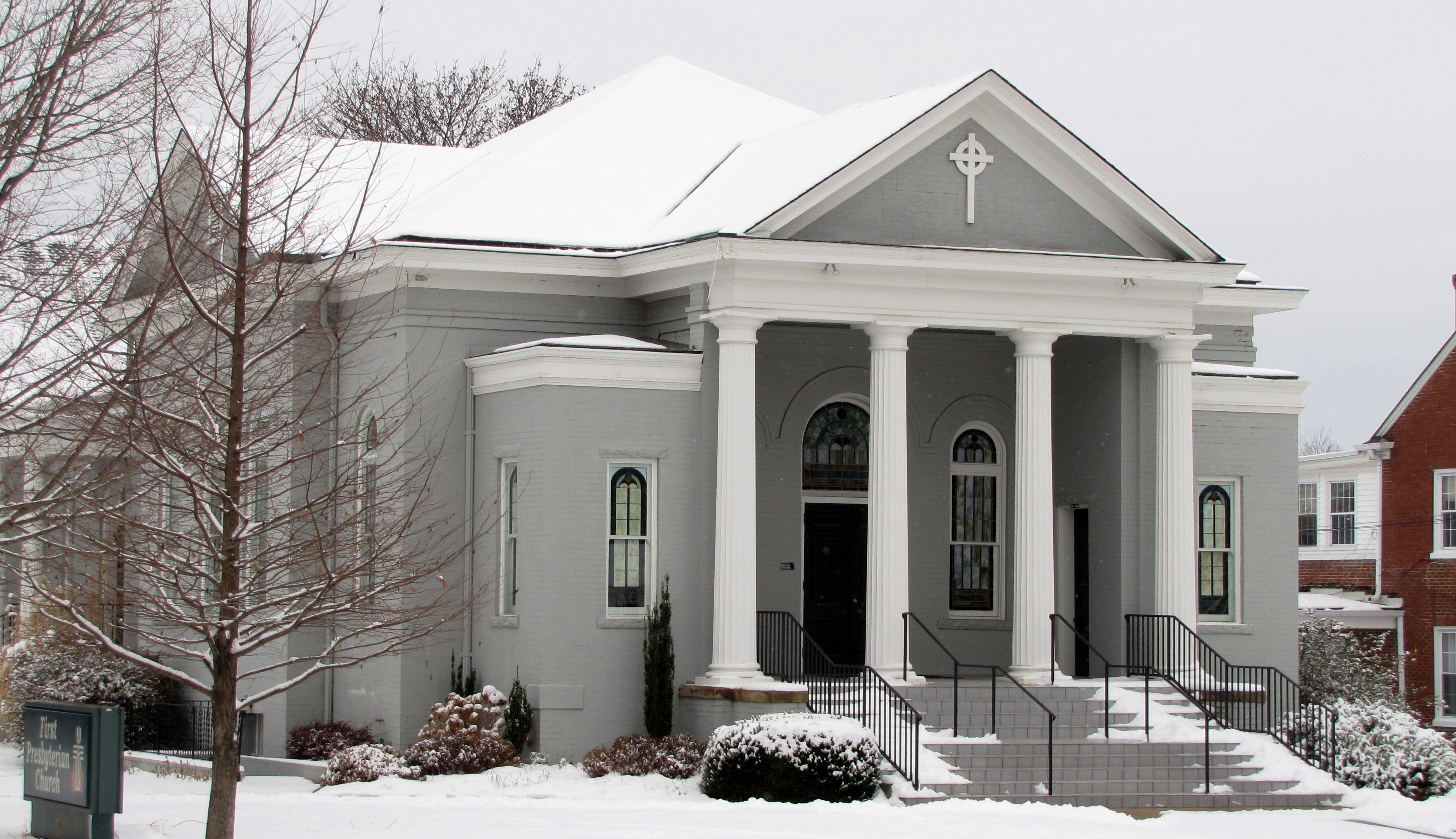 First Presbyterian Church in Cookeville, Tennessee, USA. The congregation was founded in 1867, and the present sanctuary built in 1910. Wings were added in the 1950s. This church is now listed on the National Register of Historic Places.